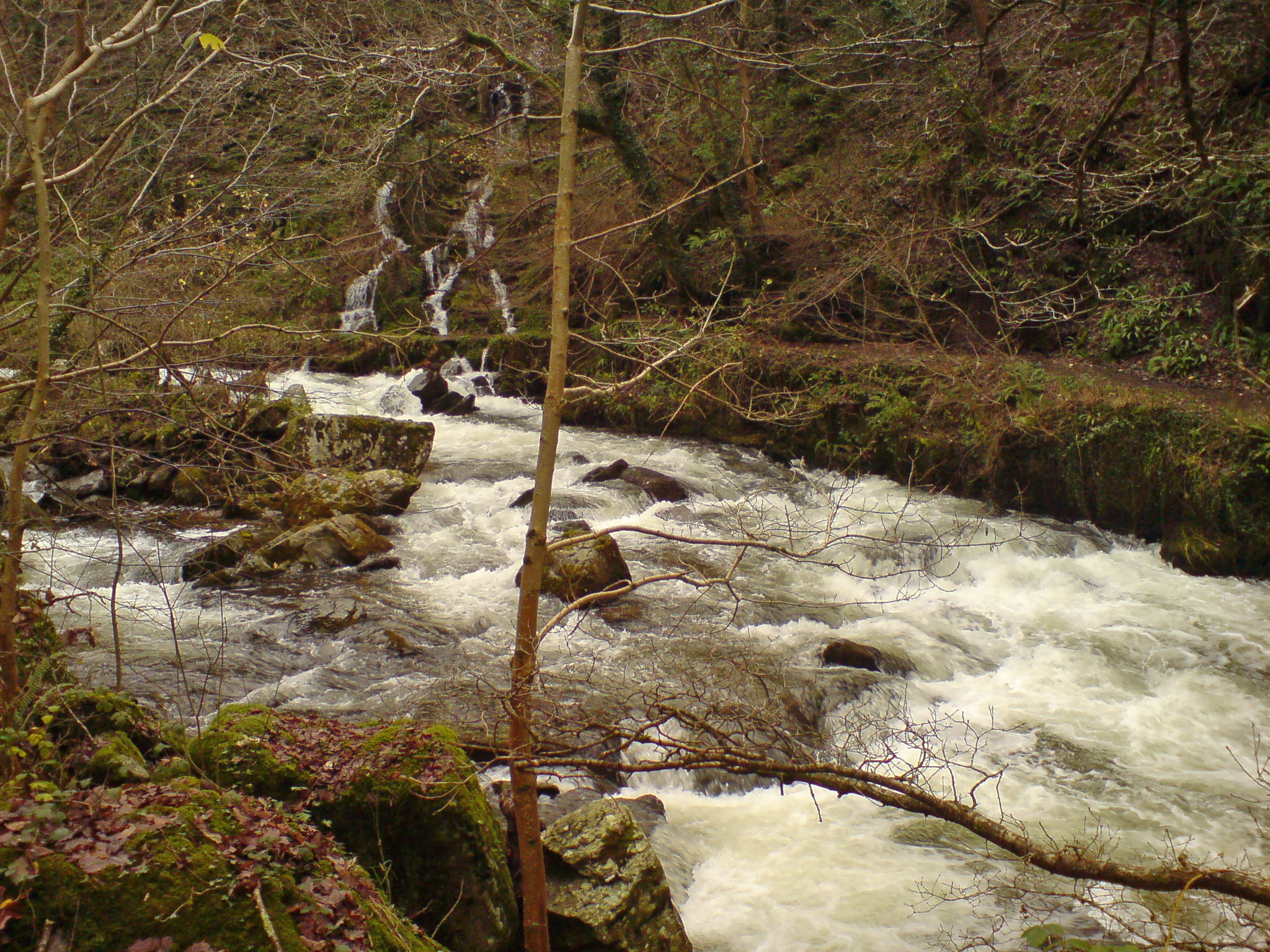 Author: Jamsta